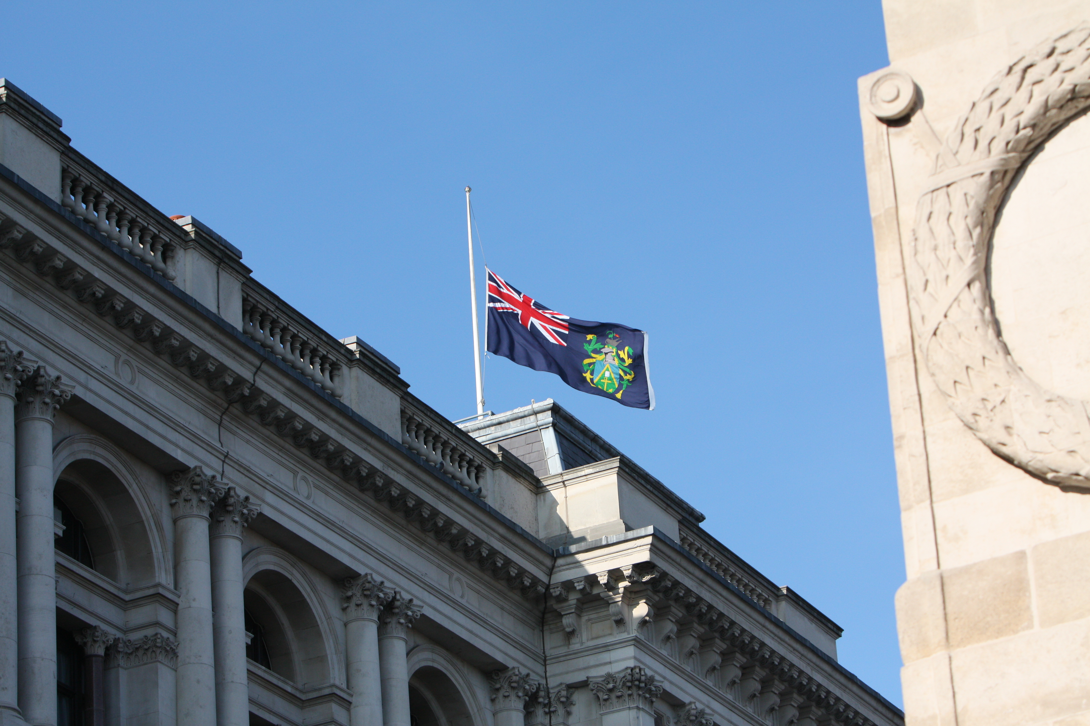 The flag of Pitcairn flies on the Foreign Office building in London, 23 January 2015. The flag is being flown at half-mast following the death of King Abdullah bin Abd Al Aziz Al Saud.